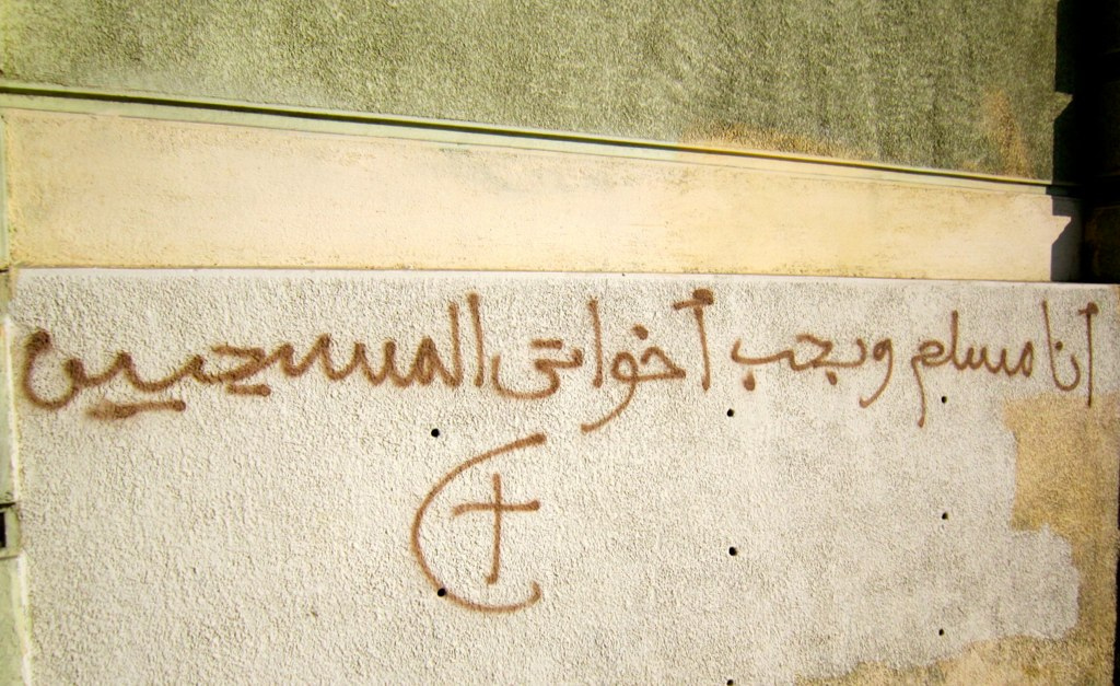 "I am a Muslim and I love my Christian siblings" - graffiti in Egypt 2011.